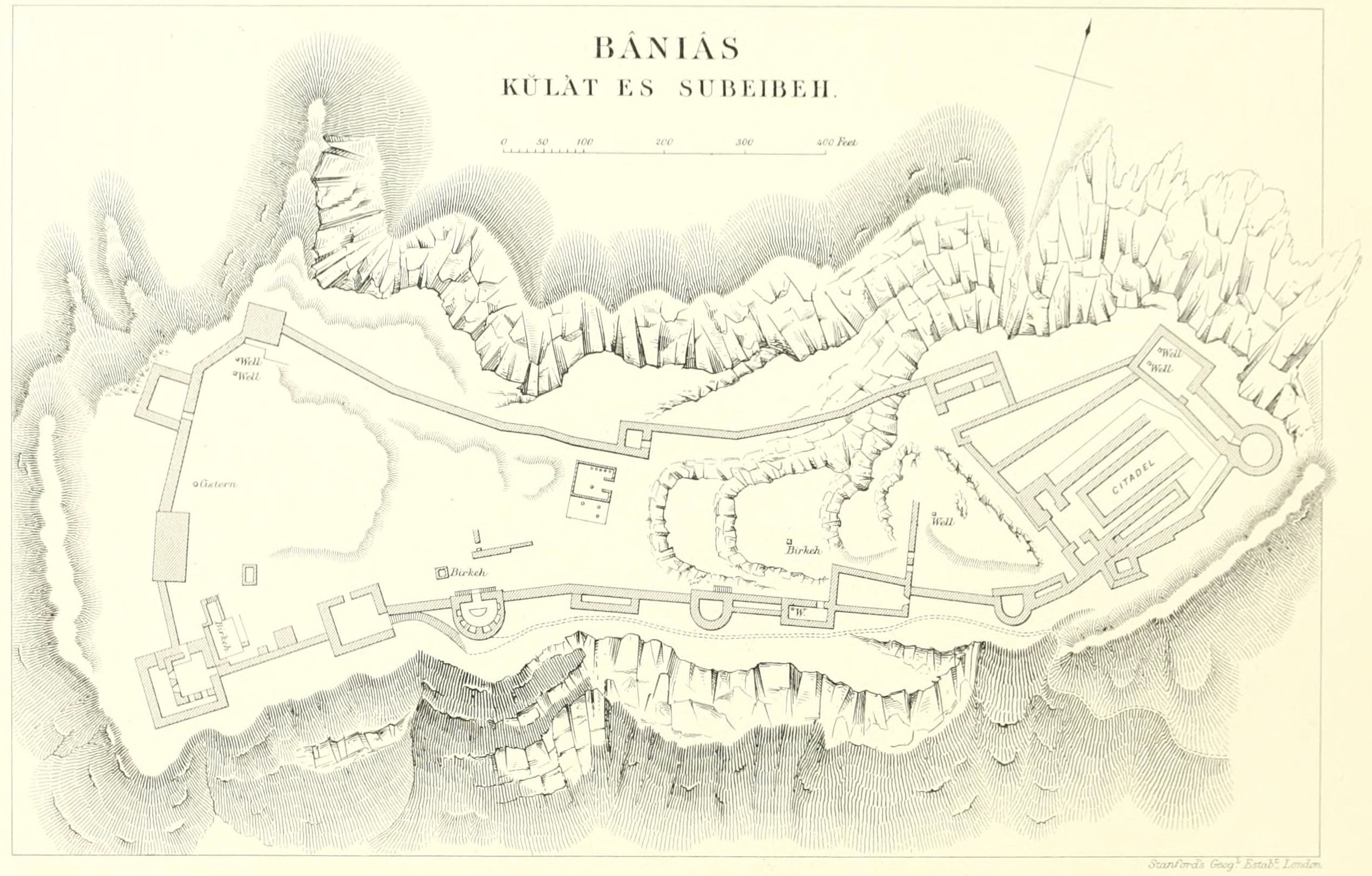 Banias from the 1871-77 Palestine Exploration Fund Survey of Palestine